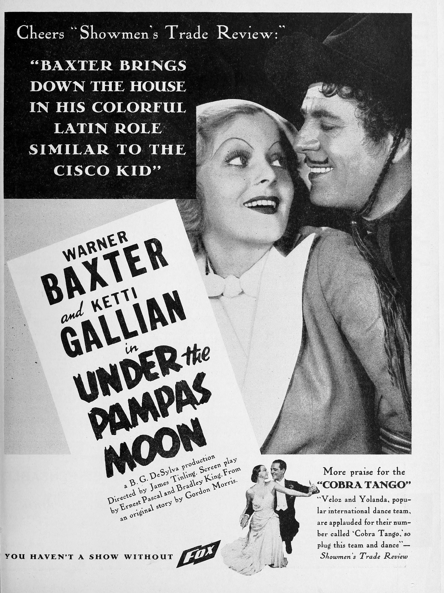 Trade advertisement for the American film Under the Pampas Moon (1935).